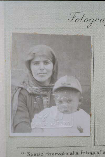 Passport photo of Nomikos Vaporis (right) with his mother, Kalliope, used to enter the United States in 1929.